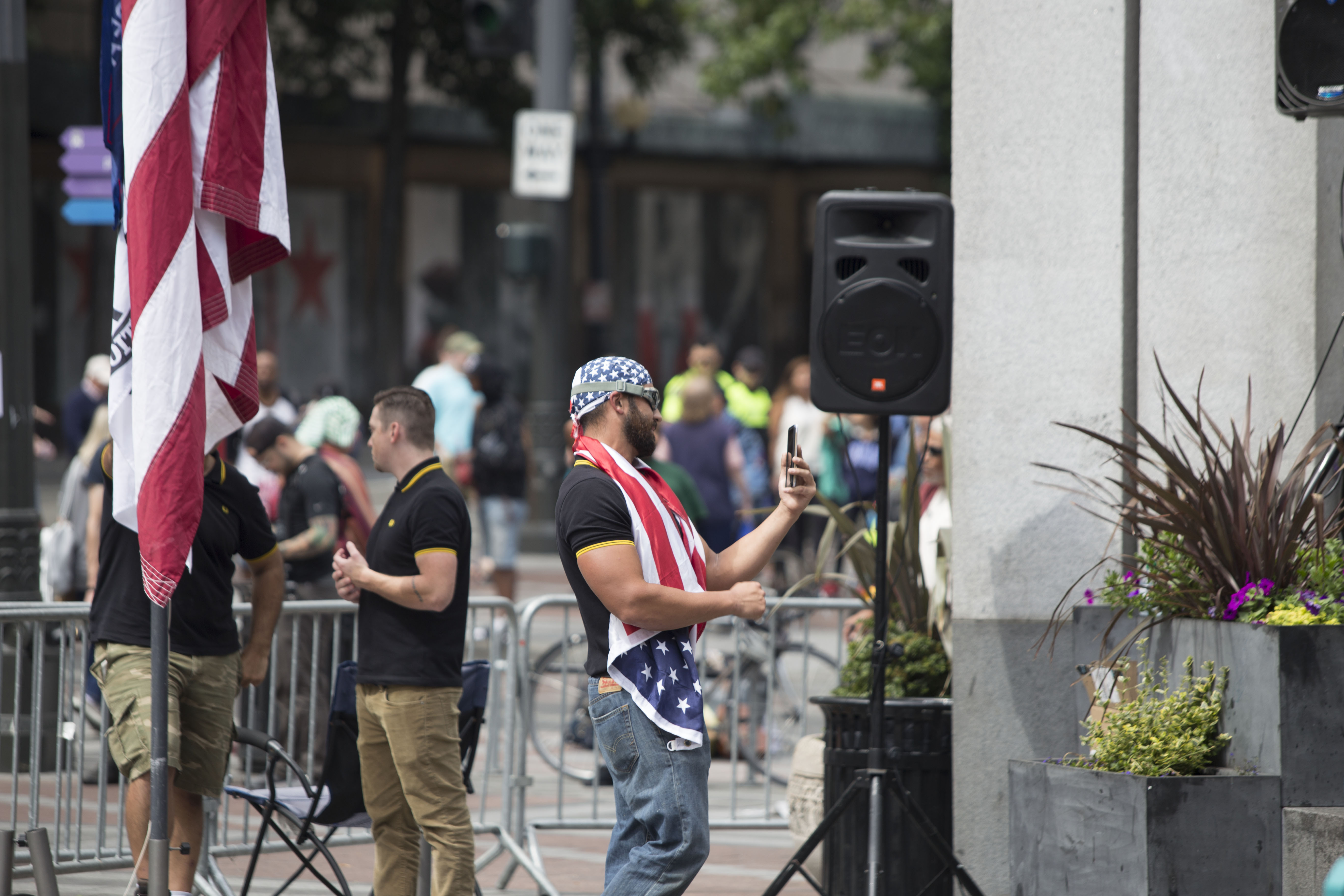 August 13, 2017 Patriot Prayer and Solidarity Against Hate demonstrations in Seattle